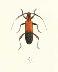 « Antennica nigripes » = Pseuderos nigripes